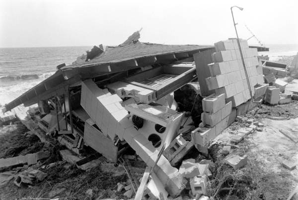 A coastal/beachfront house destroyed by Hurricane Elena in Florida, USA, 1985.